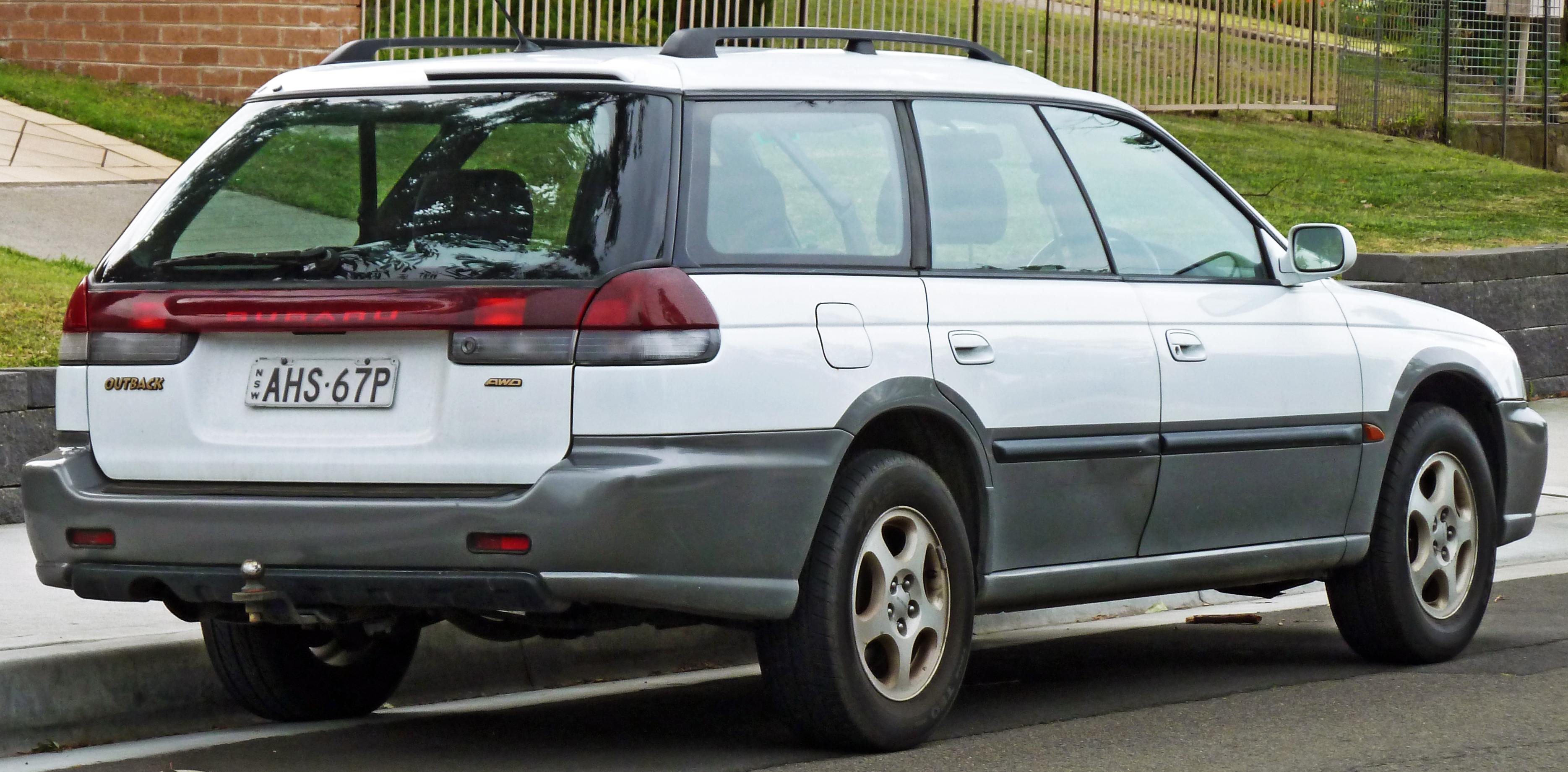 1998 Subaru Outback (BG9 MY98) Special Edition station wagon. This has been listed as a Special Edition due to the sunroof fitted. Photographed in Taren Point, New South Wales, Australia.